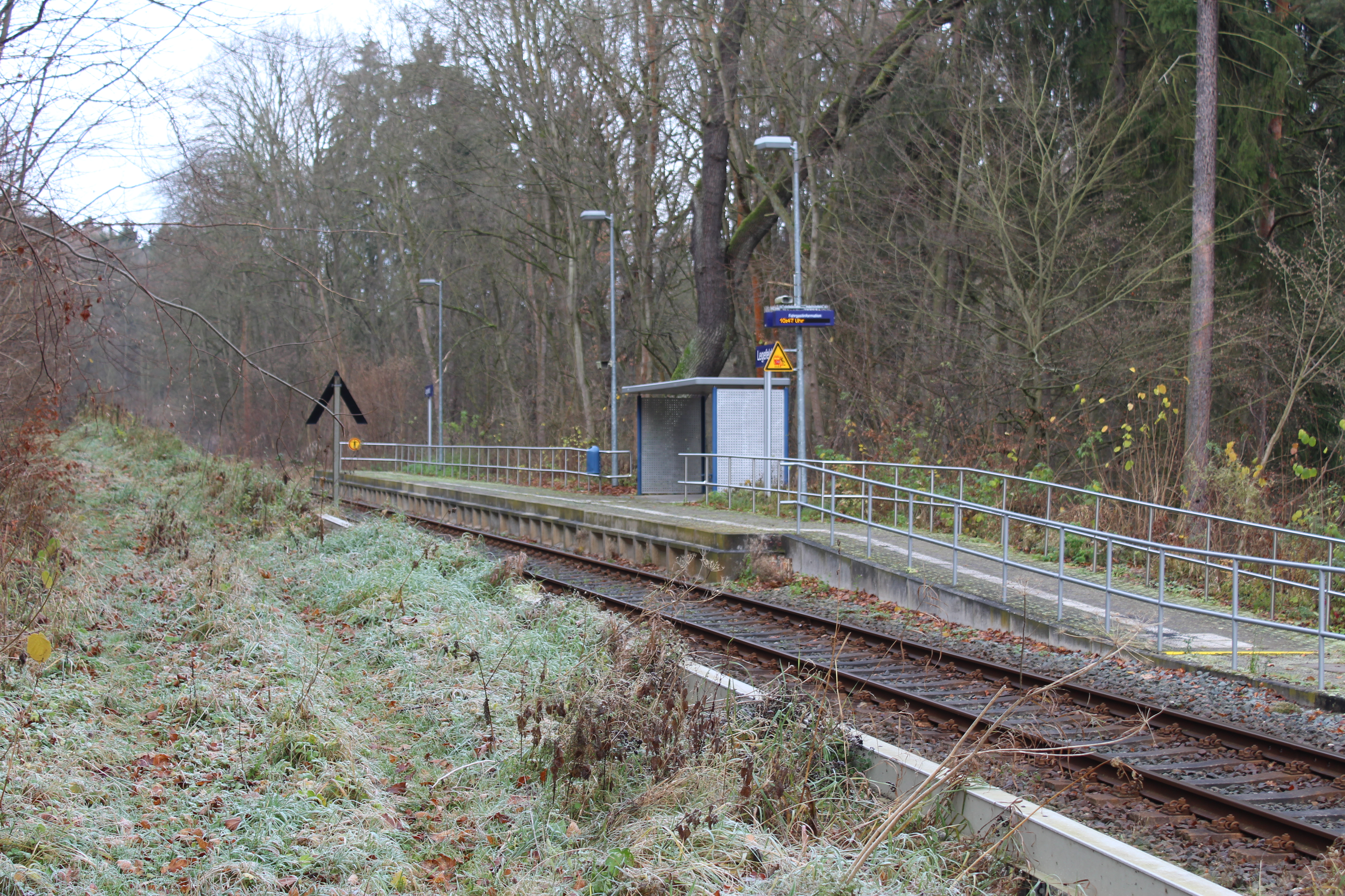 train station Legefeld